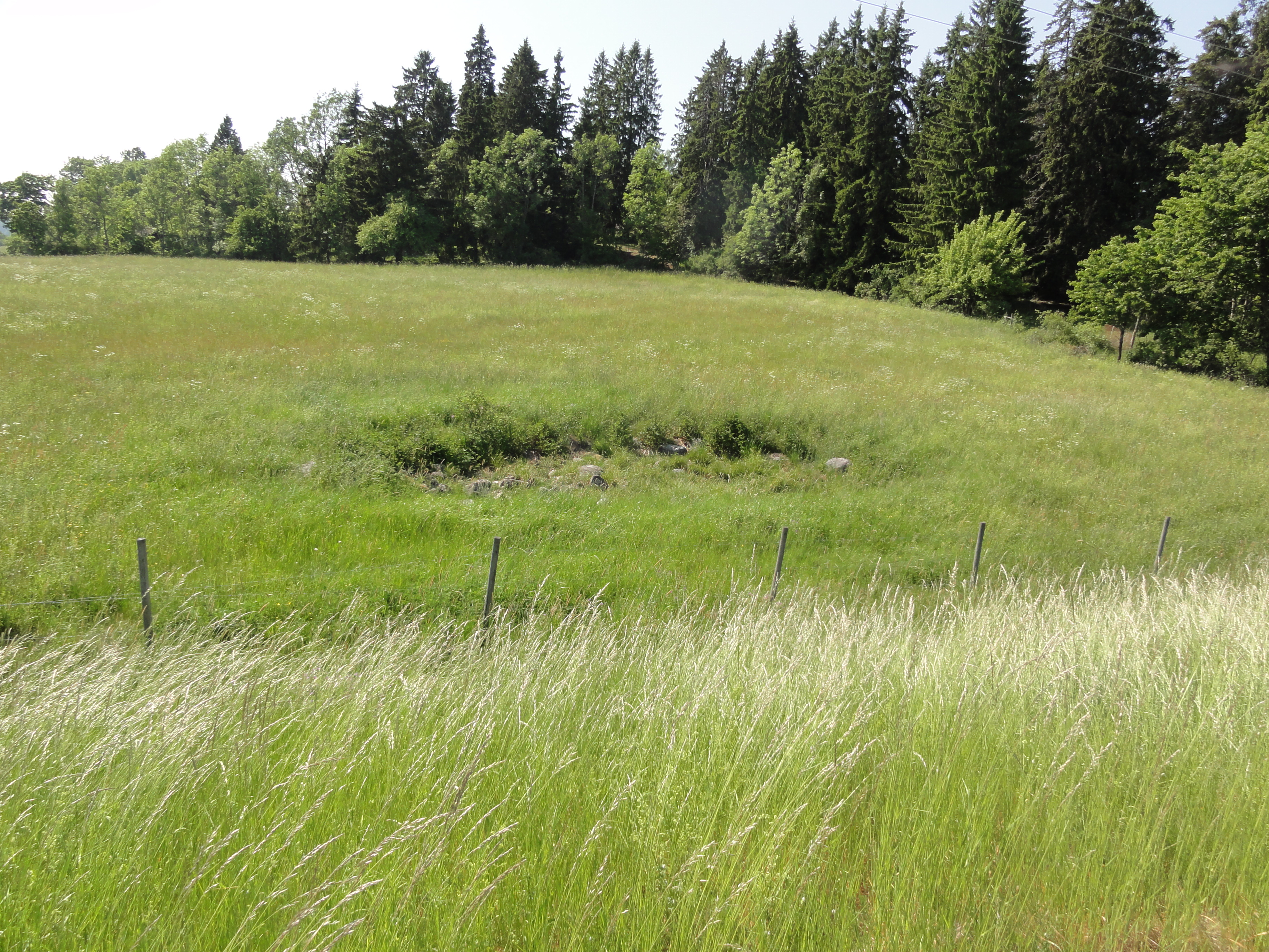 According to oral tradition the foundation to the church Länna kyrkas originally planned location. It was tore down each night by more distant locals in Grovsta who wanted the church att its current locationUnknown kyrkgrund som enligt lokal tradition utgjorde planerad plats för länna kyrka. de boende i grovsta ville ha kyrkan på den plats den står idag och saboterade bygget under nätterna tills den flyttades.